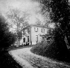 Ellis Estate 'Herne Hill' on Grenadier Heights just off The Queensway, Swansea